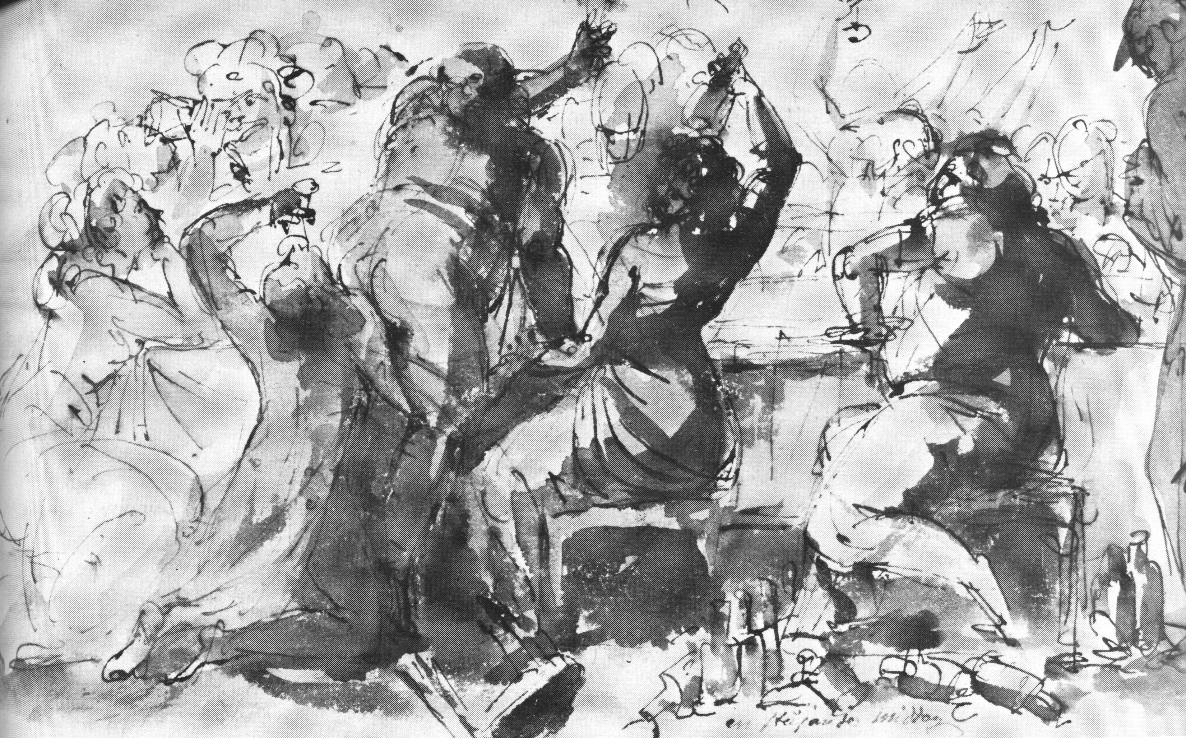 A splendid dinner, by Johan Tobias Sergel.